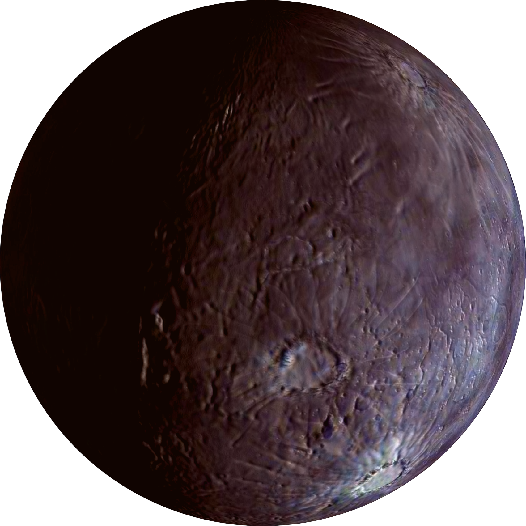 This is an artist's impression of the icy Kuiper belt object 2002 LM60, dubbed "Quaoar" by its discoverers. With the help of NASA's Hubble Space Telescope, astronomers have determined that Quaoar (pronounced kwa-whar) is the largest body found in the solar system since the discovery of Pluto 72 years ago. Quaoar is about 800 miles (1300 kilometers) in diameter and is about half the size of Pluto. Like Pluto, Quaoar dwells in the Kuiper belt, an icy debris field of comet-like bodies extending 7 billion miles beyond Neptune's orbit. Quaoar is the farthest object in the solar system ever to be resolved by a telescope. It is about 4 billion miles (6.5 billion kilometers) from Earth, more than 1 billion miles farther than Pluto.